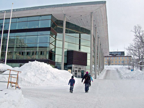 The Combined Library in Härnösand, Sweden